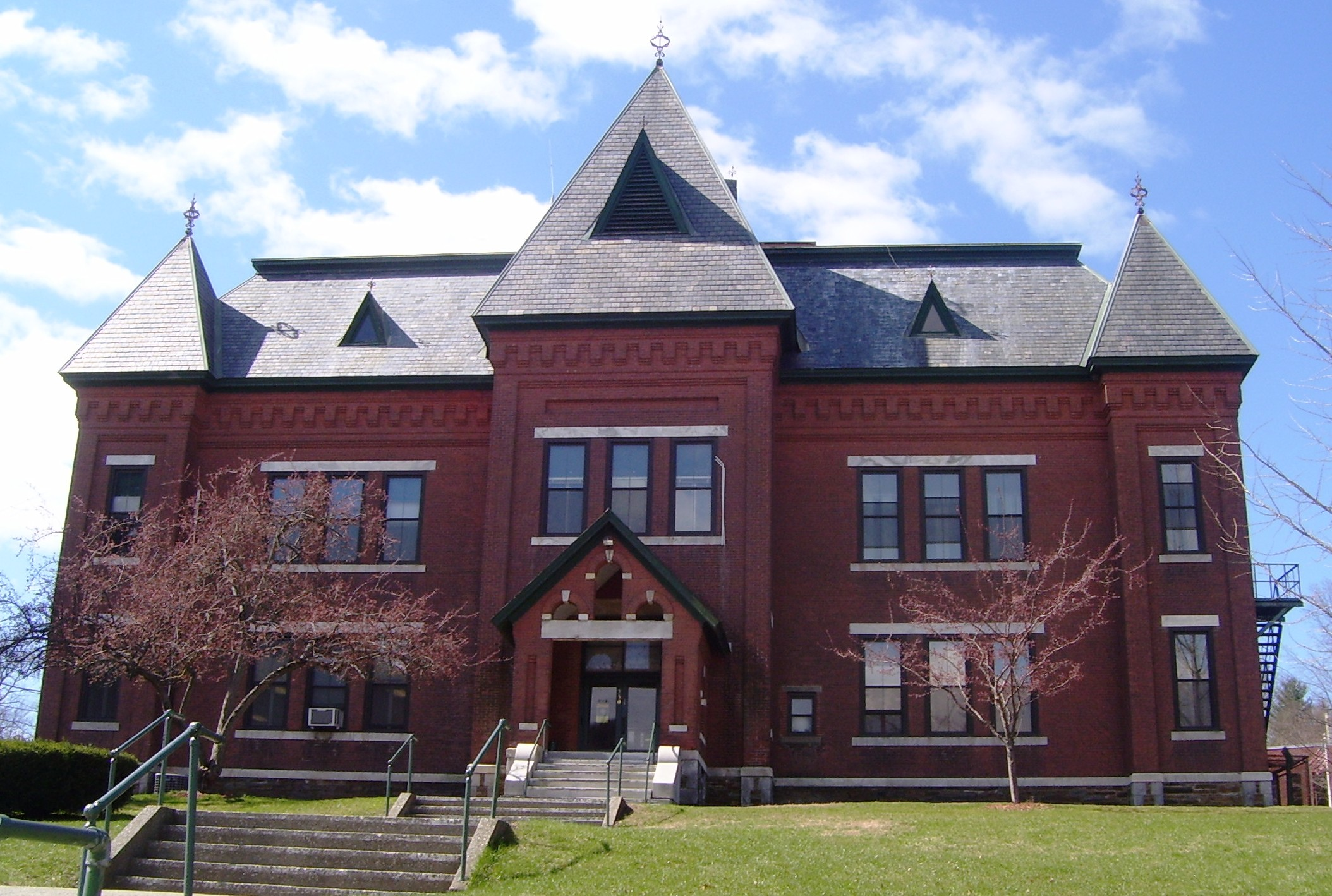 The Municipal Center, or Town Hall, on Vermont Route 30 in Brattleboro, Vermont, was built in 1884 in the Gothic Revival style, orginally for use as the town's high school, which it remained until 1951. It is located within the Brattleboro Downtown Historic District. (Source: "The Visitor's Guide to Brattleboro and the Vibrant Villages of Southern Vermont" (2010))